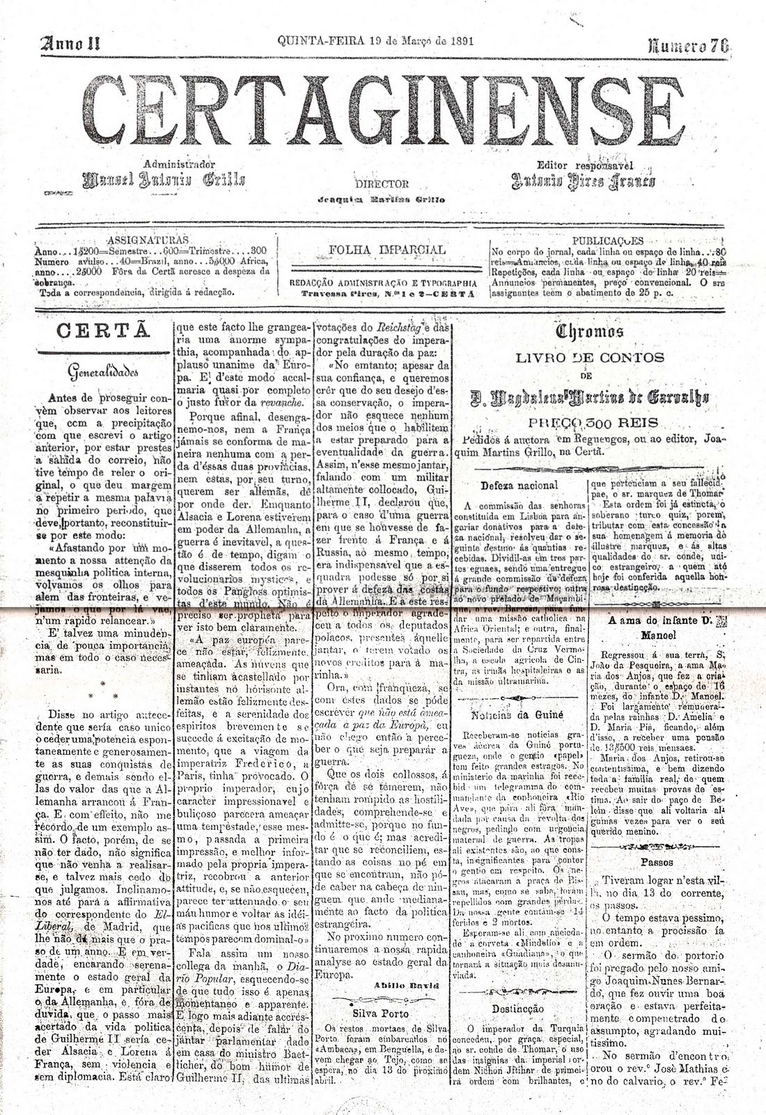 Front page of a newspaper of more 80 years ago.